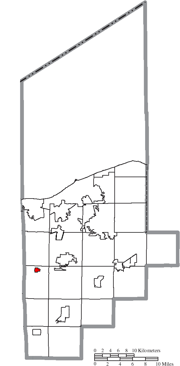 Map of the municipal and township boundaries of Lorain County, Ohio, United States, as of the 2000 census, with the location of the village of Kipton highlighted. Township borders are shown only in unincorporated areas in order to differentiate incorporated and unincorporated areas more clearly.